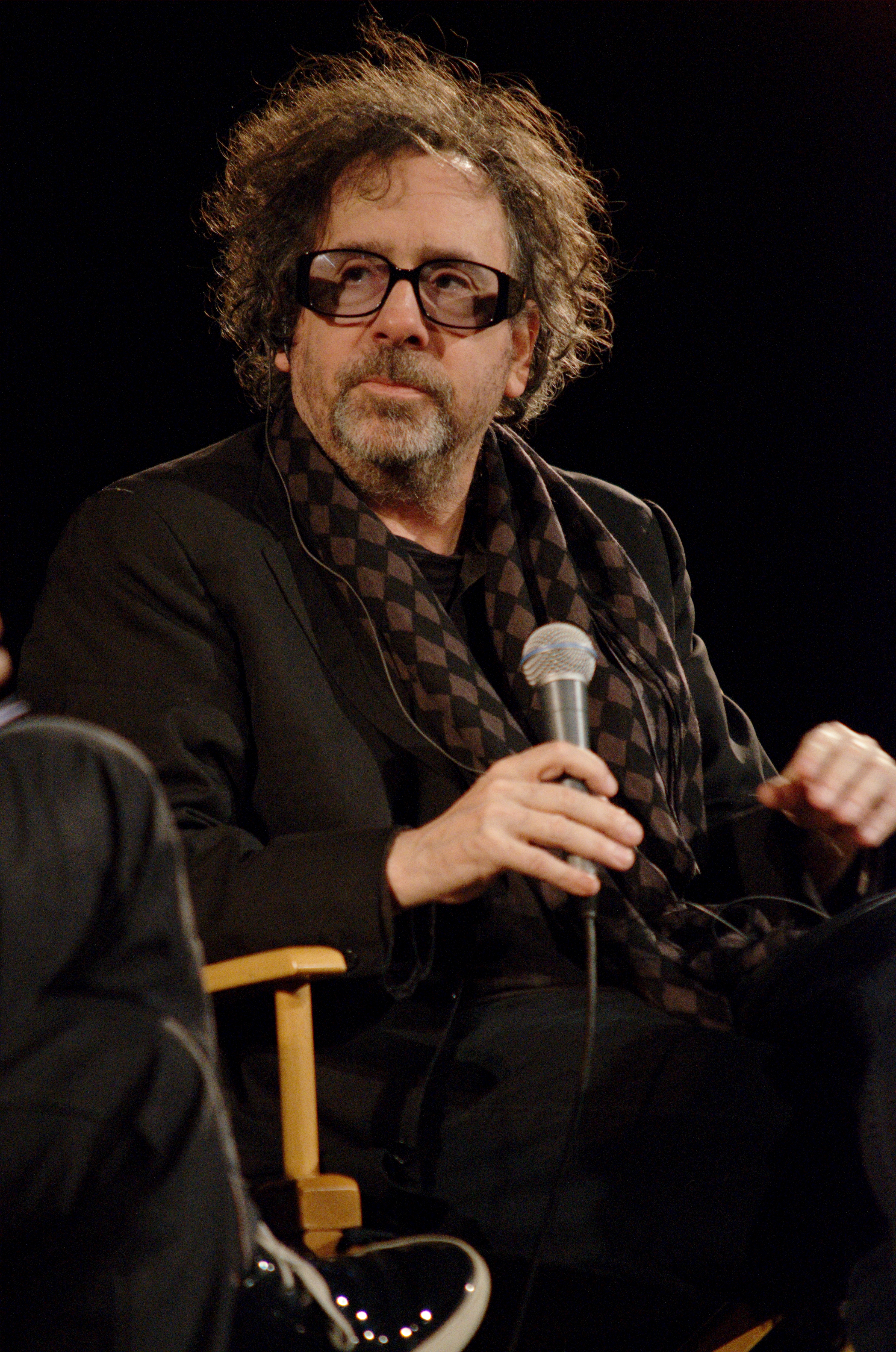 Tim Burton at the Cinémathèque Française (Paris, France) during his masterclass on March 5th, 2012